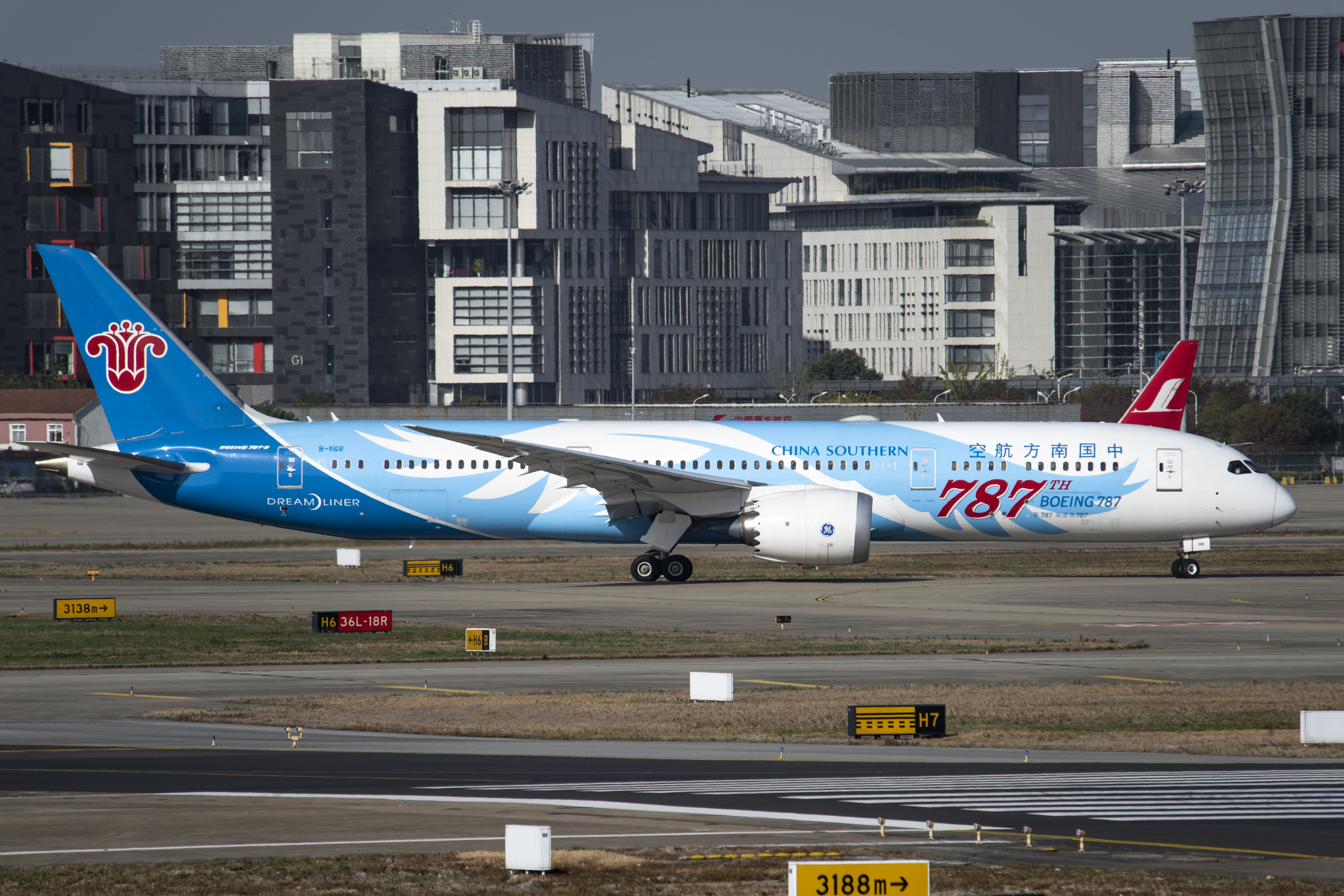 Nanfang 3596 to Guangzhou.